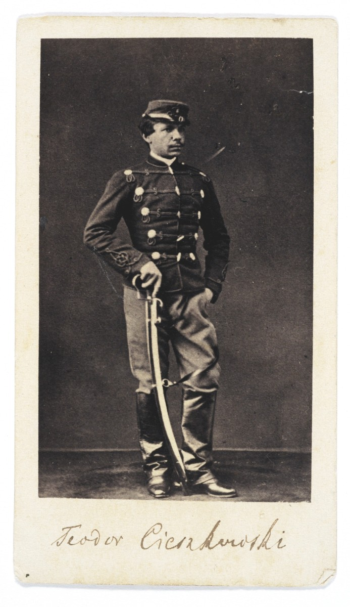 Teodor Cieszkowski (1833-1863) - Polish upriser